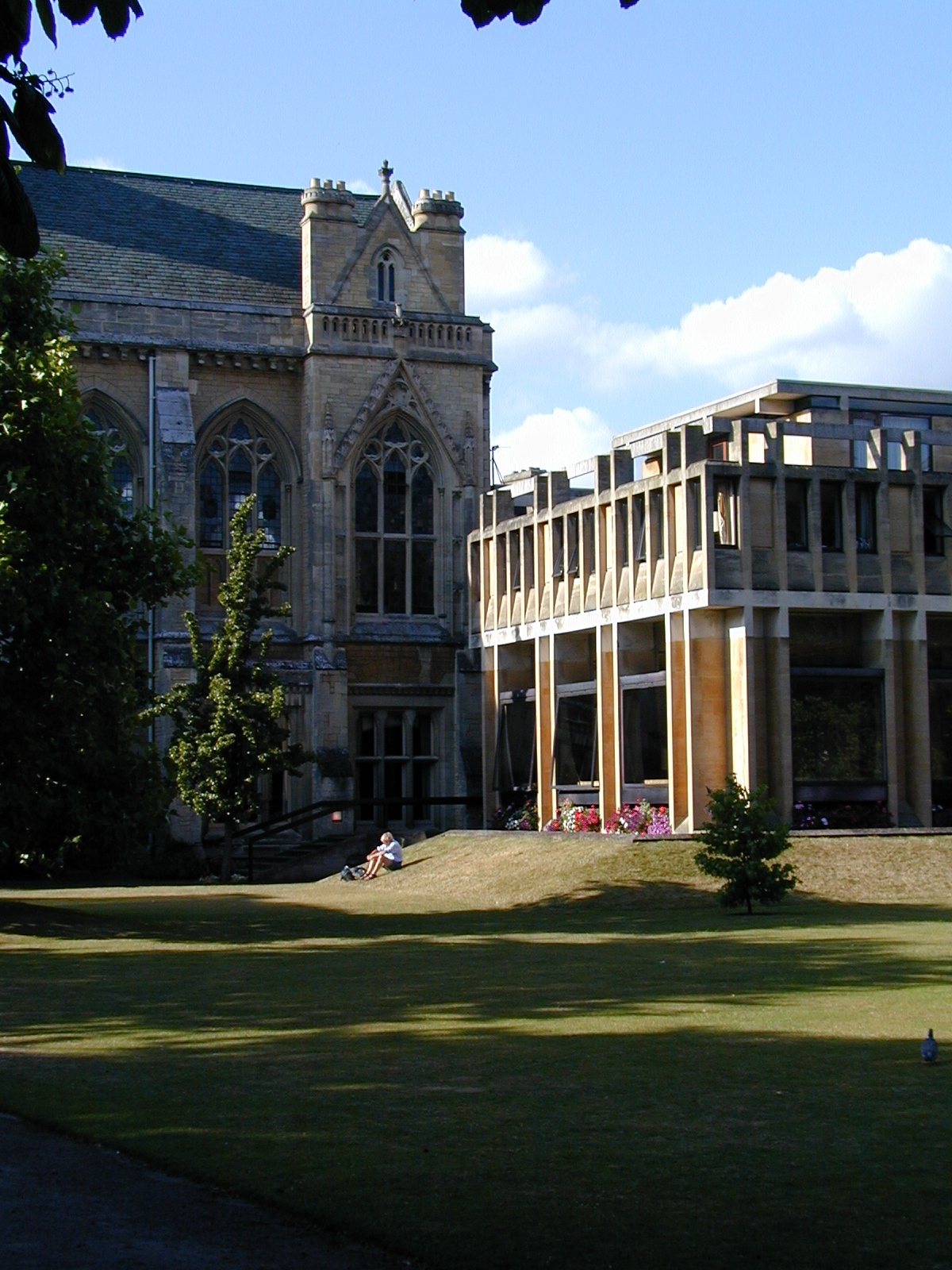 Balliol College, Oxford